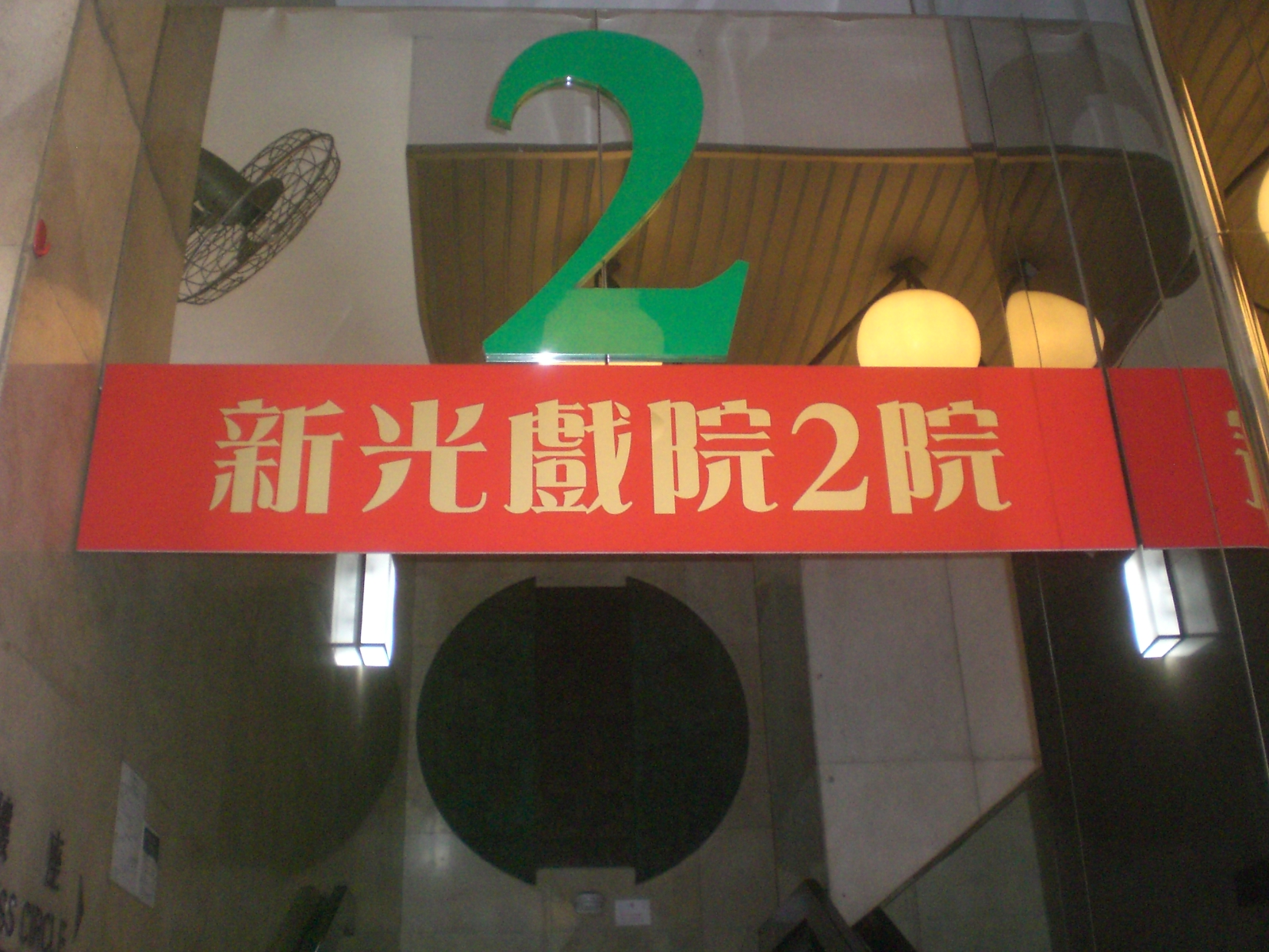 北角新光戲院